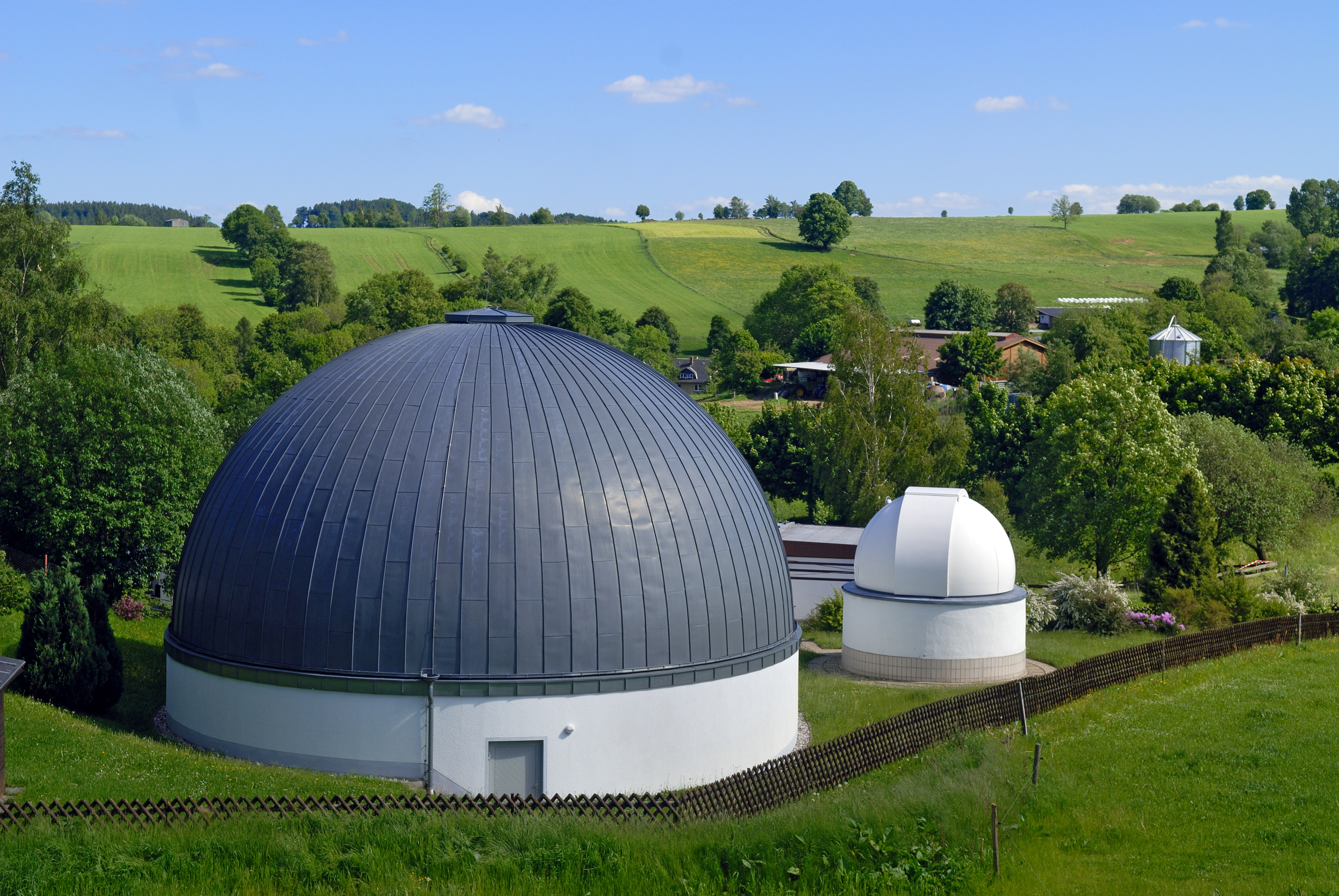 This image shows the observatory in Drebach, Saxony, Germany.